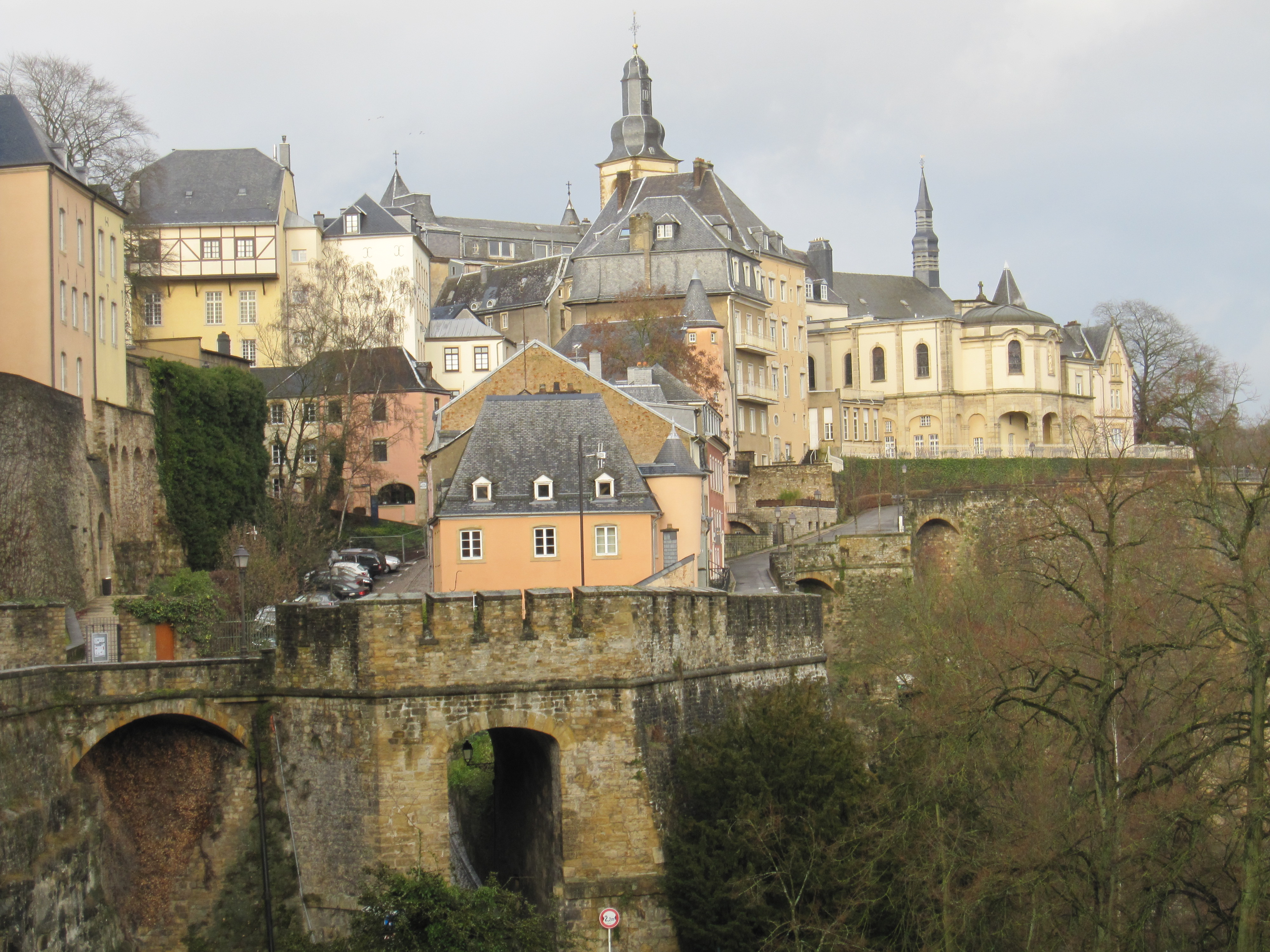 Luxembourg old city panorama